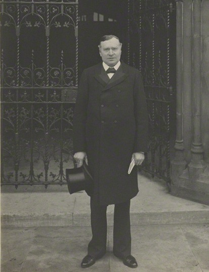 by Sir (John) Benjamin Stone, platinum print in card window mount, 20 March 1901